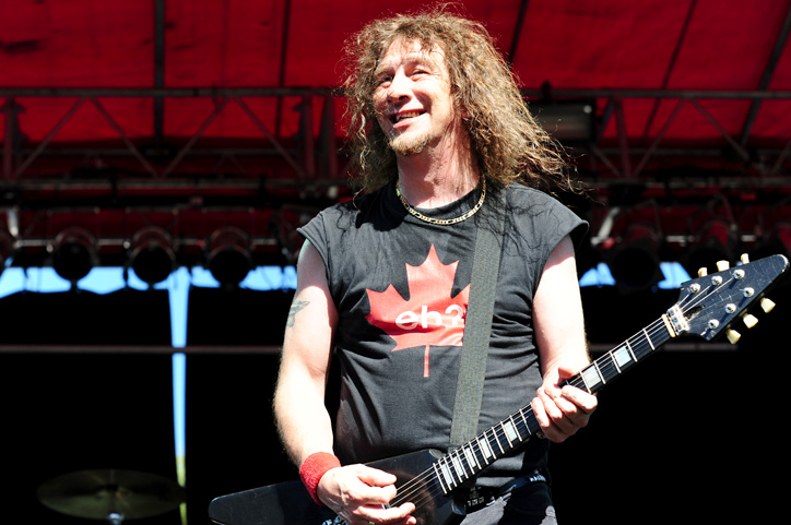 Soundwave Festival 2010